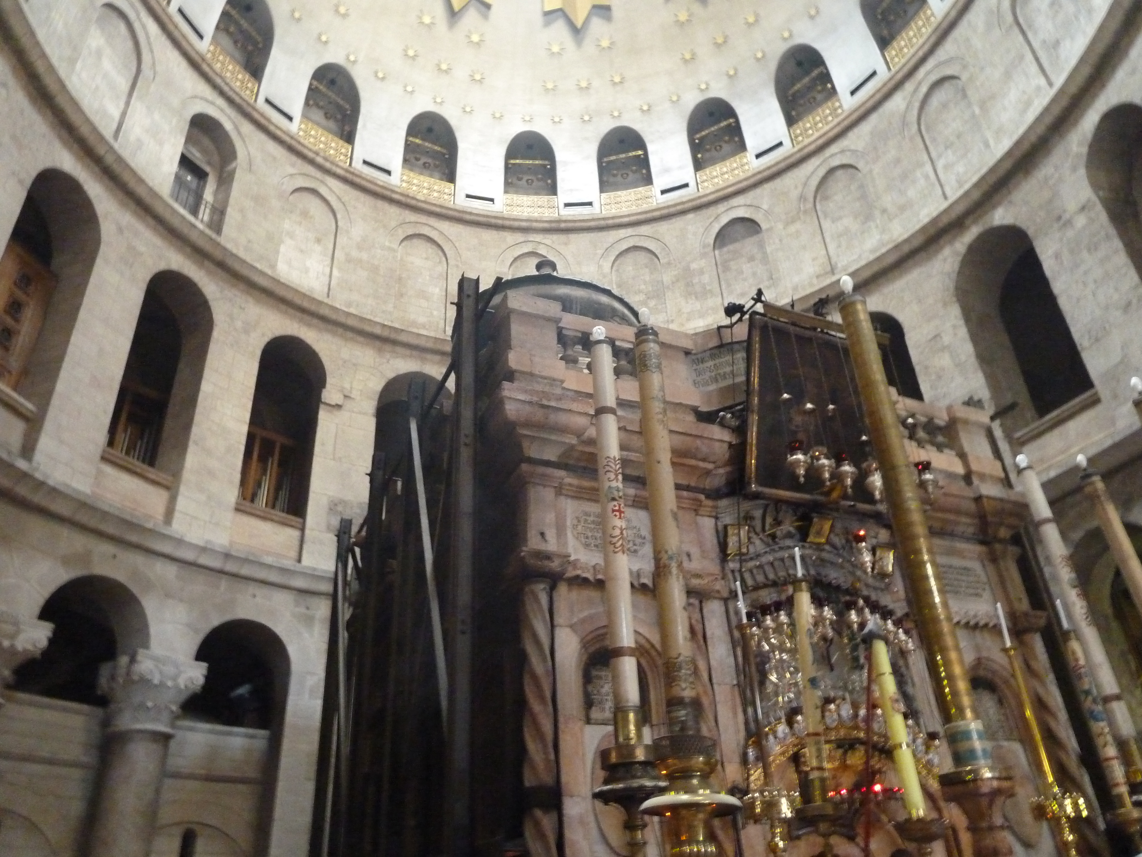 Wikimania 2011 Jerusalem Tour